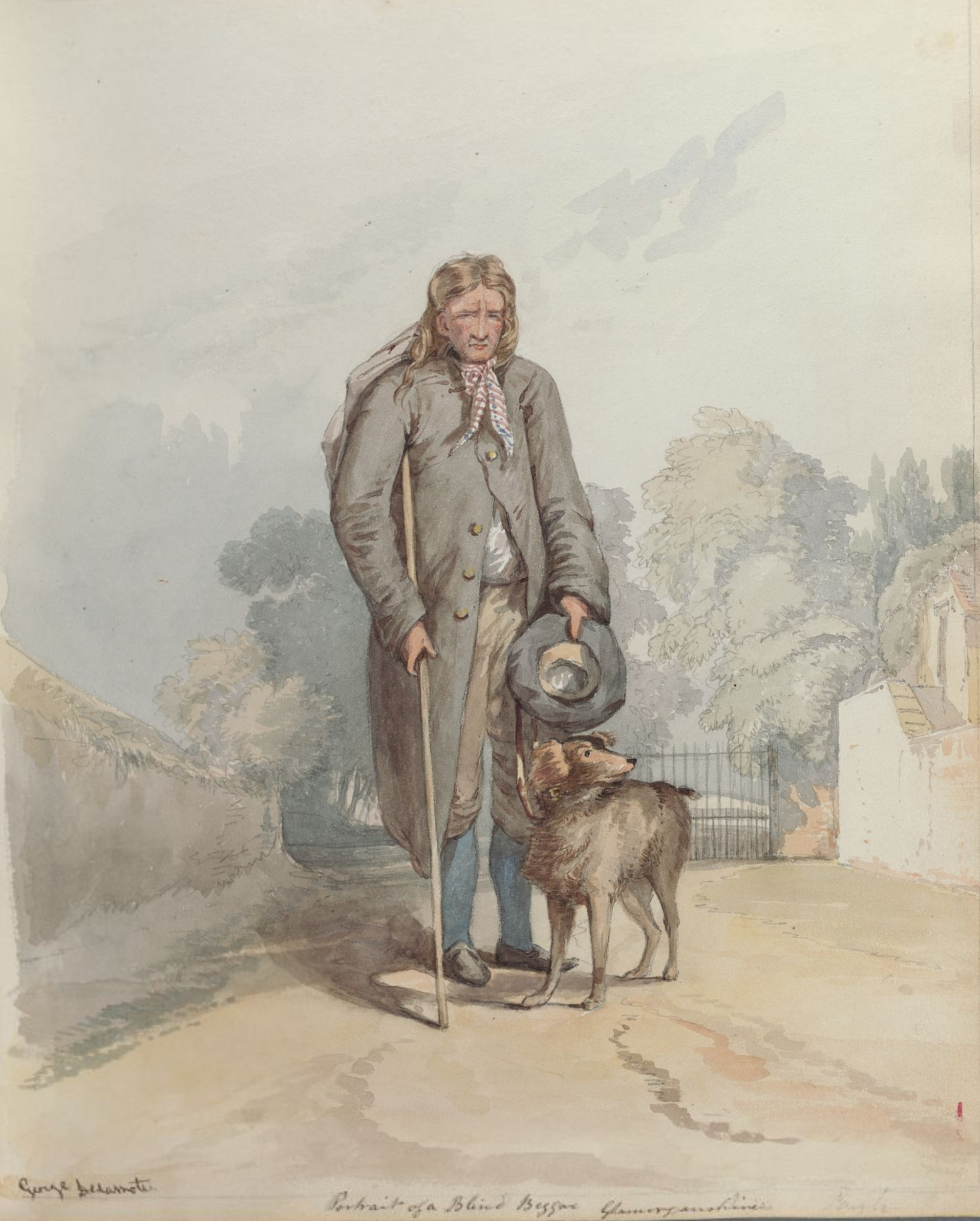 Welsh character portraits and Welsh costume relating mainly to South Wales. Portraits include Shrimpman, Idiot, Muffin Seller, Ferryman, Preacher, Servant, Begger, Harper, Irish Haymaker, Coracleman, Fiddler, Sailor, Hostler, Scottish buskers, Cowman, Blacksmith